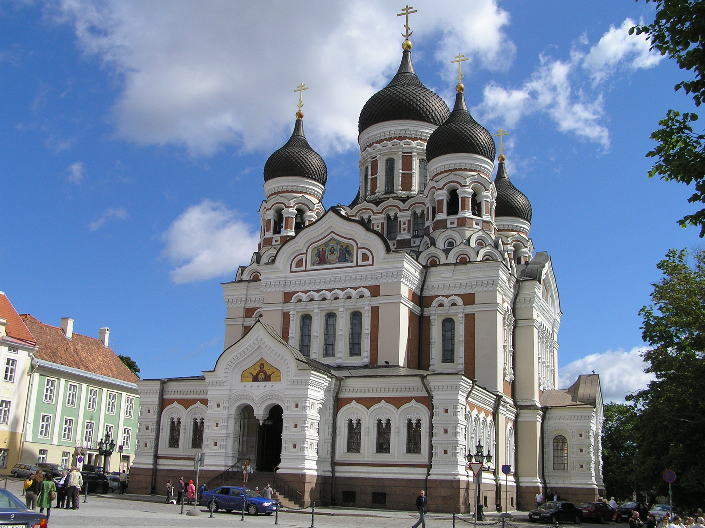 Alexander Nevski Cathedral in Toompea Tallinn